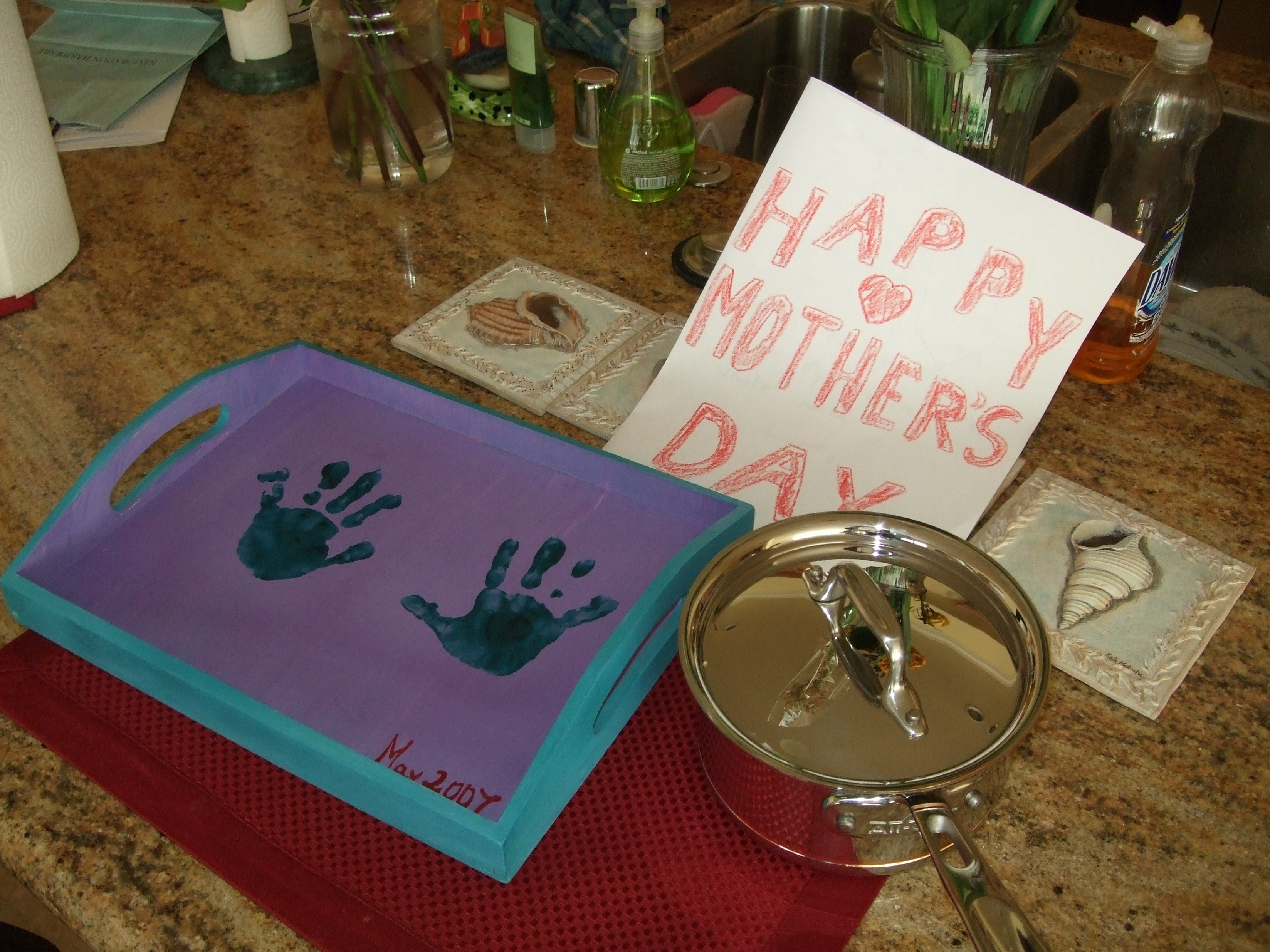 Happy Mother's DayHappy Mother's Day